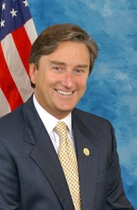 John F. Tierney, member of the United States House of Representatives.